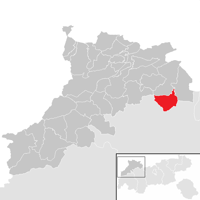 District Reutte